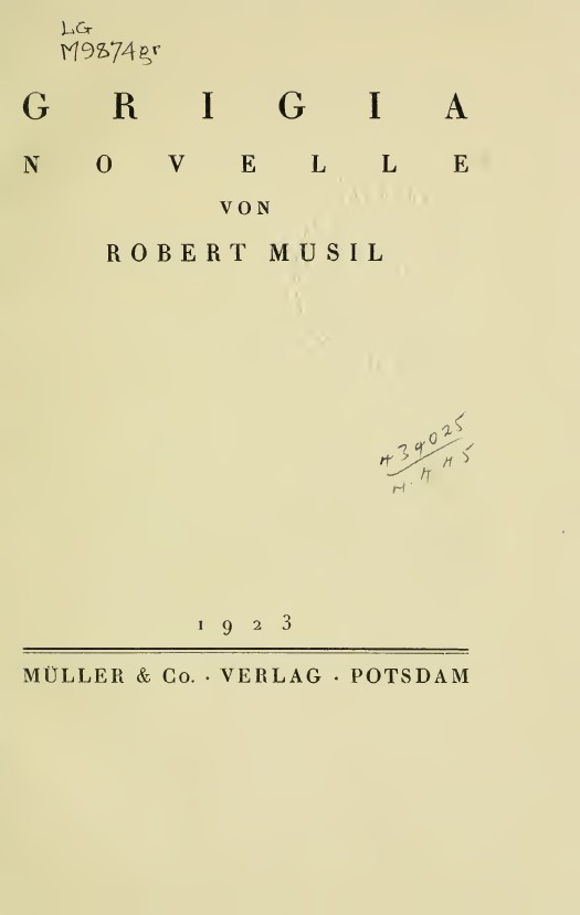 Title page